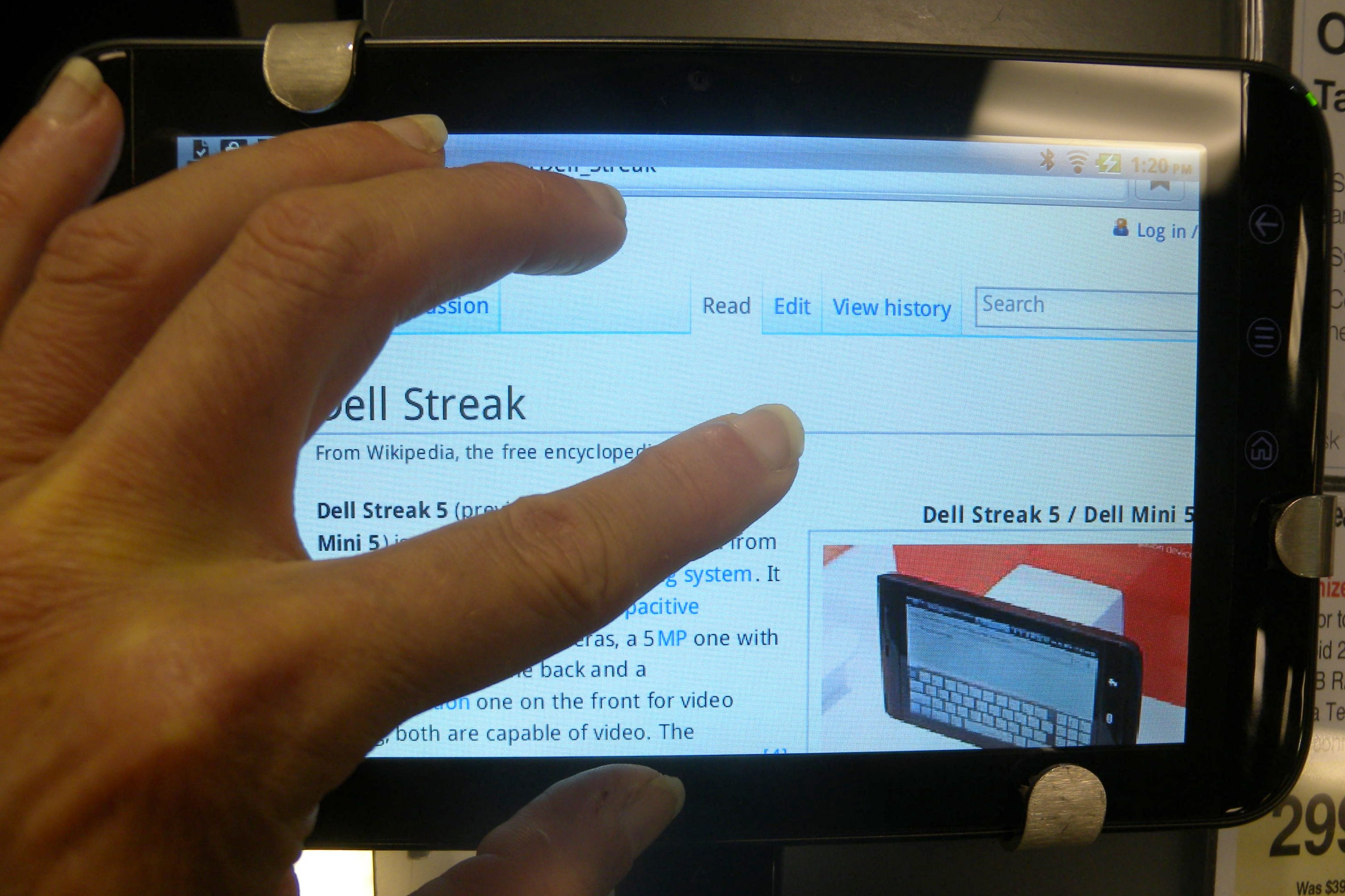 Dell Streak 7 showing its own Wikipedia page